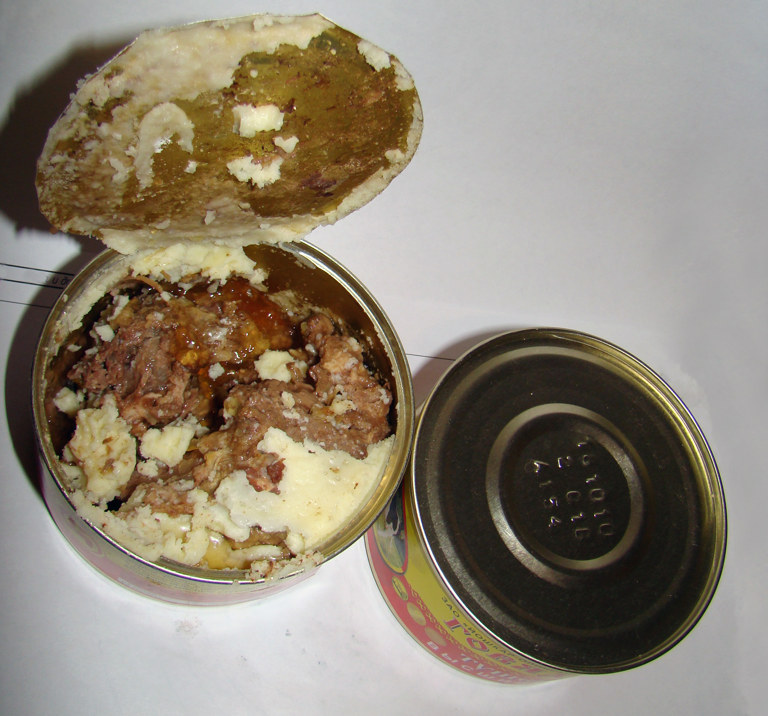 Tushonka (Russian: тушёнка) is a kind of canned stewed meat especially popular in Russia and other countries of the former Soviet Union.